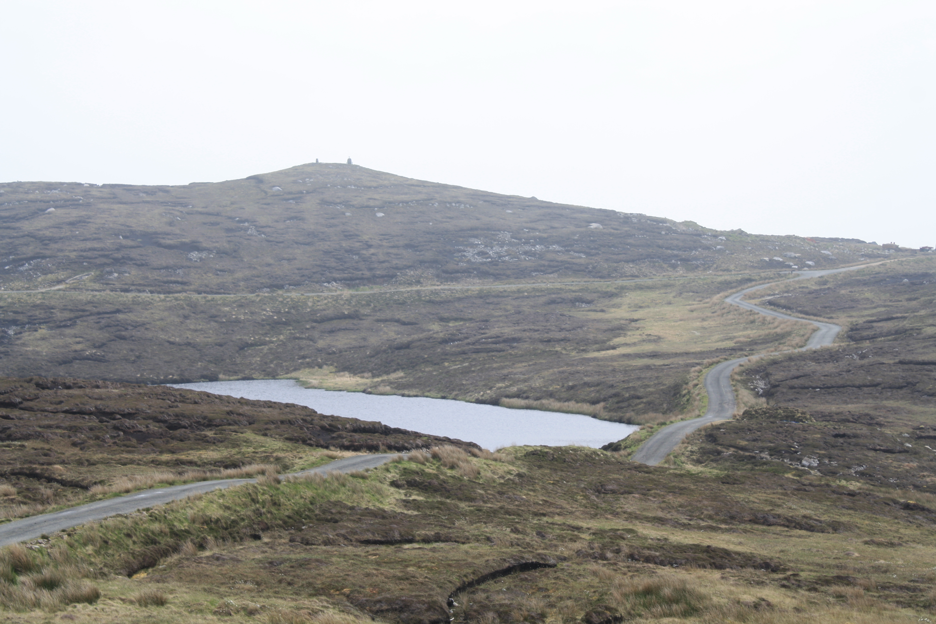 Arranmore Island